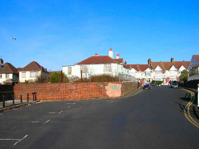 Holland Road Railway Bridge. Holland Road's southern end begins on the A259 and northern end ends just over the railway bridge with its junction with Lyndhurst Road as seen in the picture. In fact it originally ended at the brick wall to the left of the picture as the road originally served the first Hove station that was built in 1840 to the east of this picture. This closed in 1880 with the land around becoming a goods yard. However, another station, Holland Road Halt was built below the brick wall and opened in 1905 and remained in use until it was shut in 1956. The entrance was on the very left of the picture and required passengers to walk down a flight of steps to the wooden platforms. Nothing now remains of the halt.